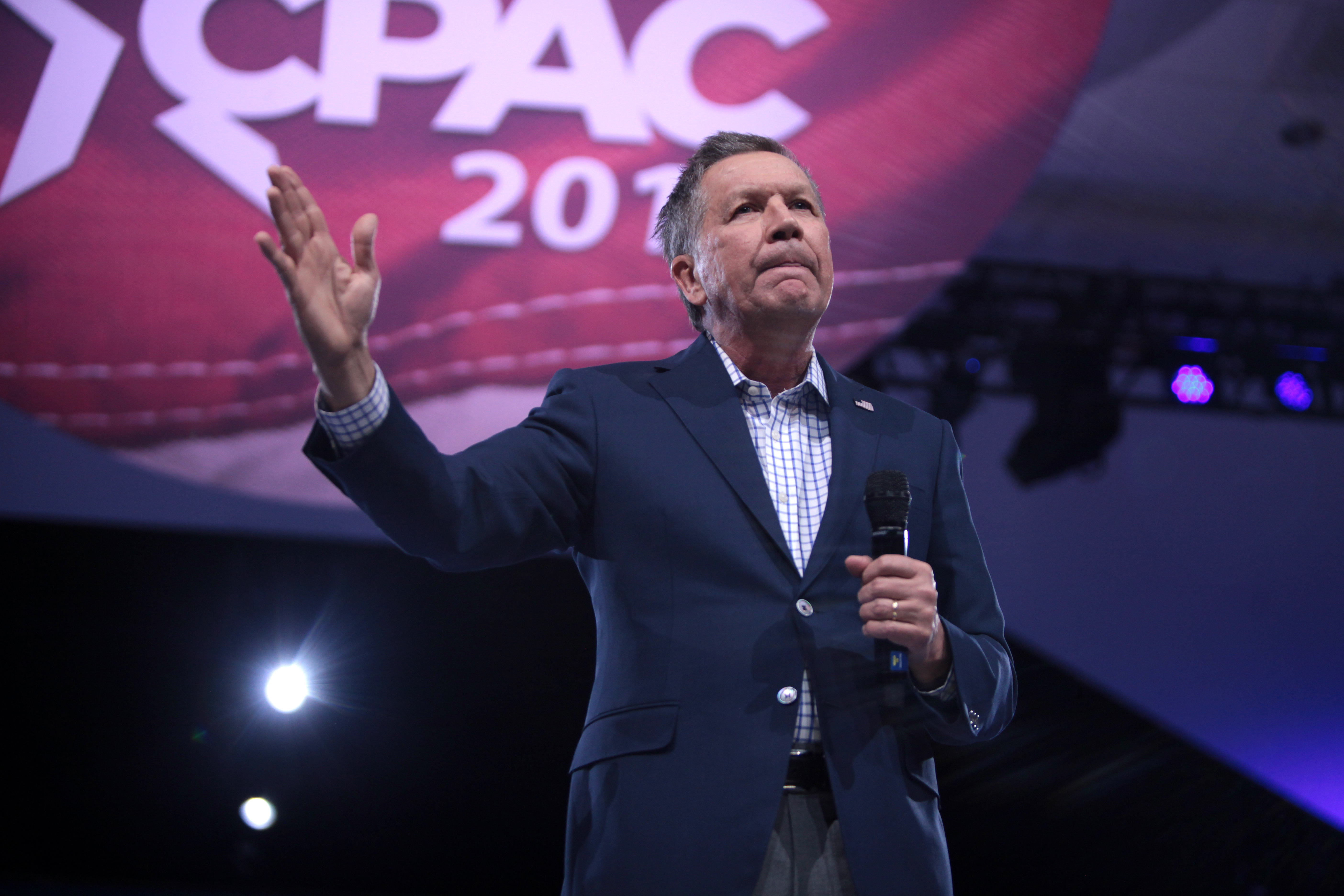 John Kasich speaking in Washington, D.C.